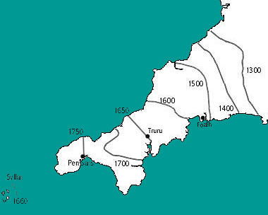 The shifting of the linguistic boundary in Cornwall 1300-1750